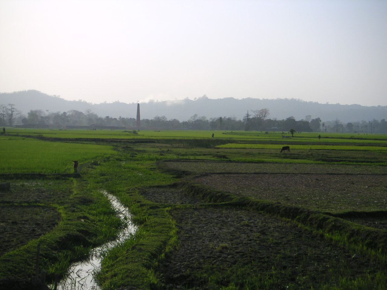 Ricefields in Tripura. Photo: Soman